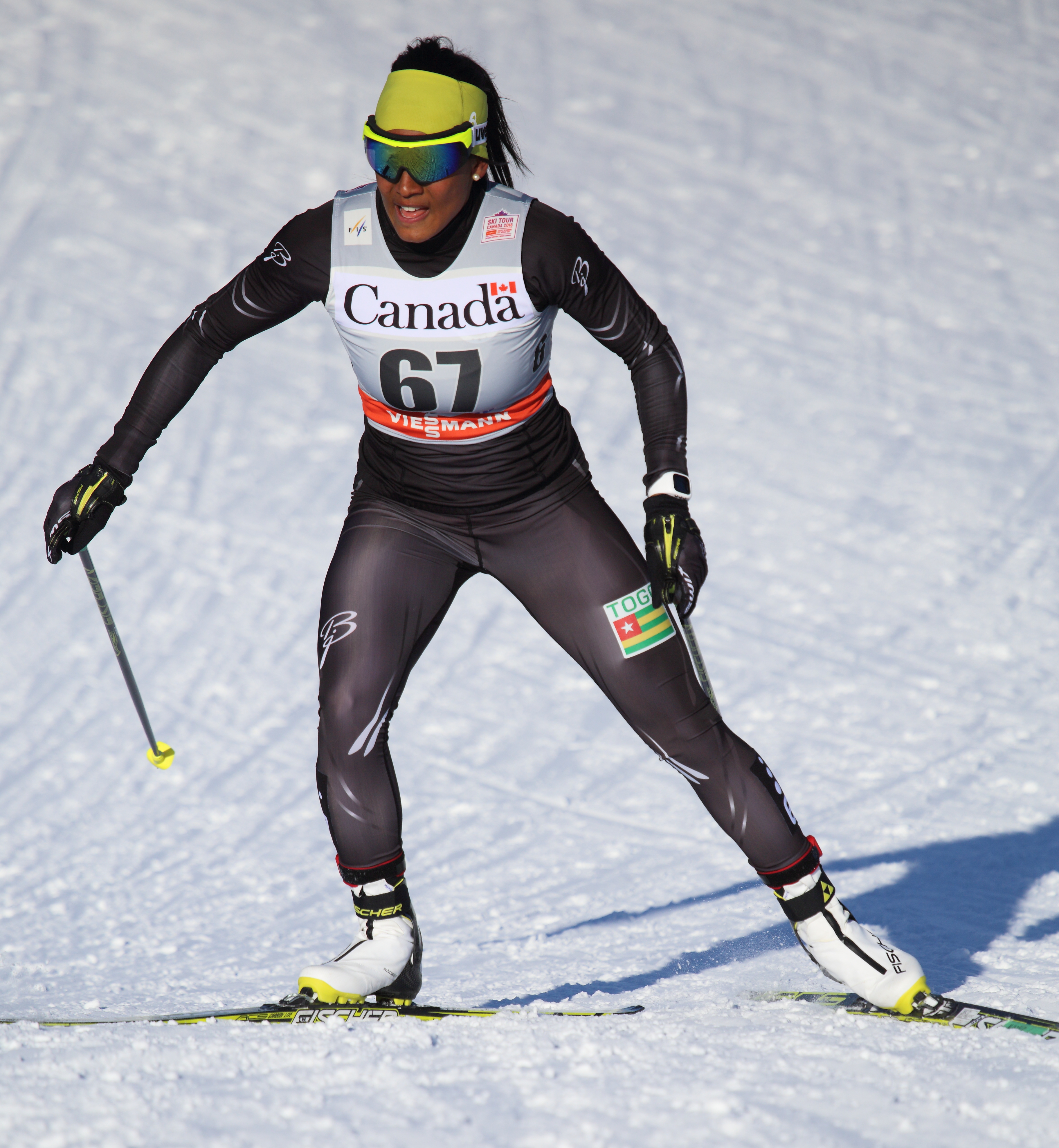 Mathilde-Amivi Petitjean at Ski Tour Canada 2016, Quebec city